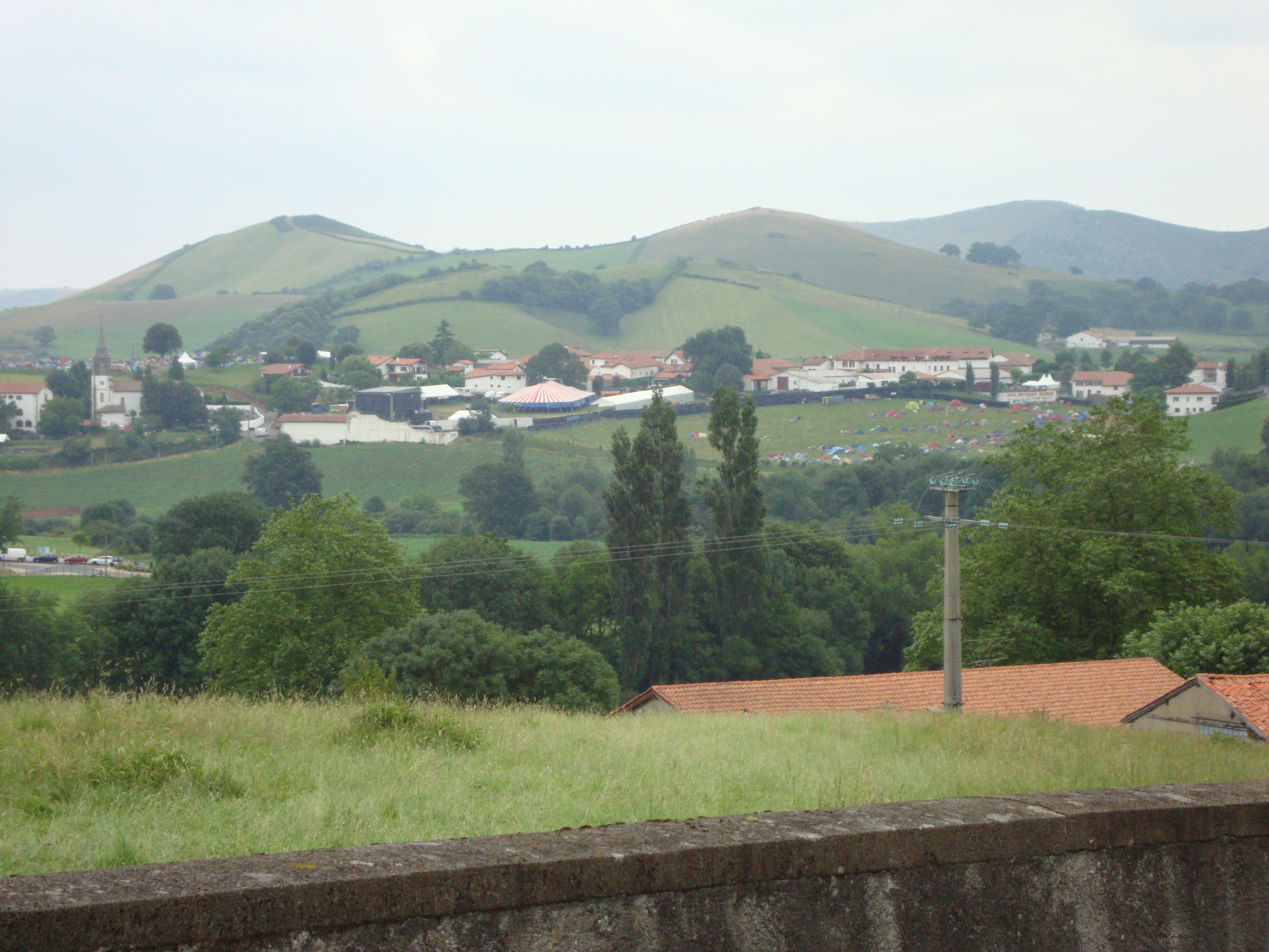 Hélette viewed from the chapel St.Vincent